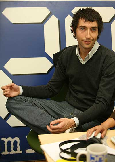 Toni Garrido, Spanish journalist